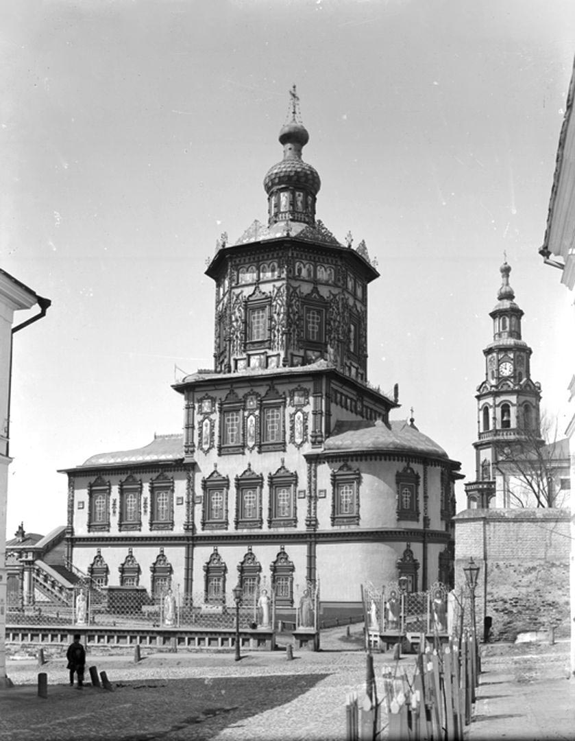 snt Peter and Paul cathedral in Kazan before 1917